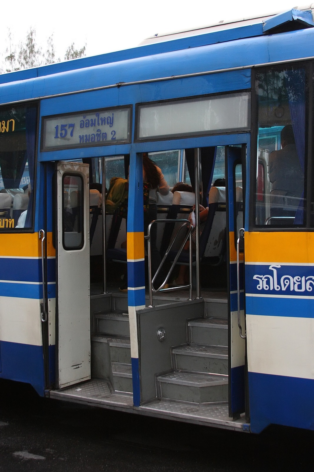 Floor level of a typical older Bangkok bus